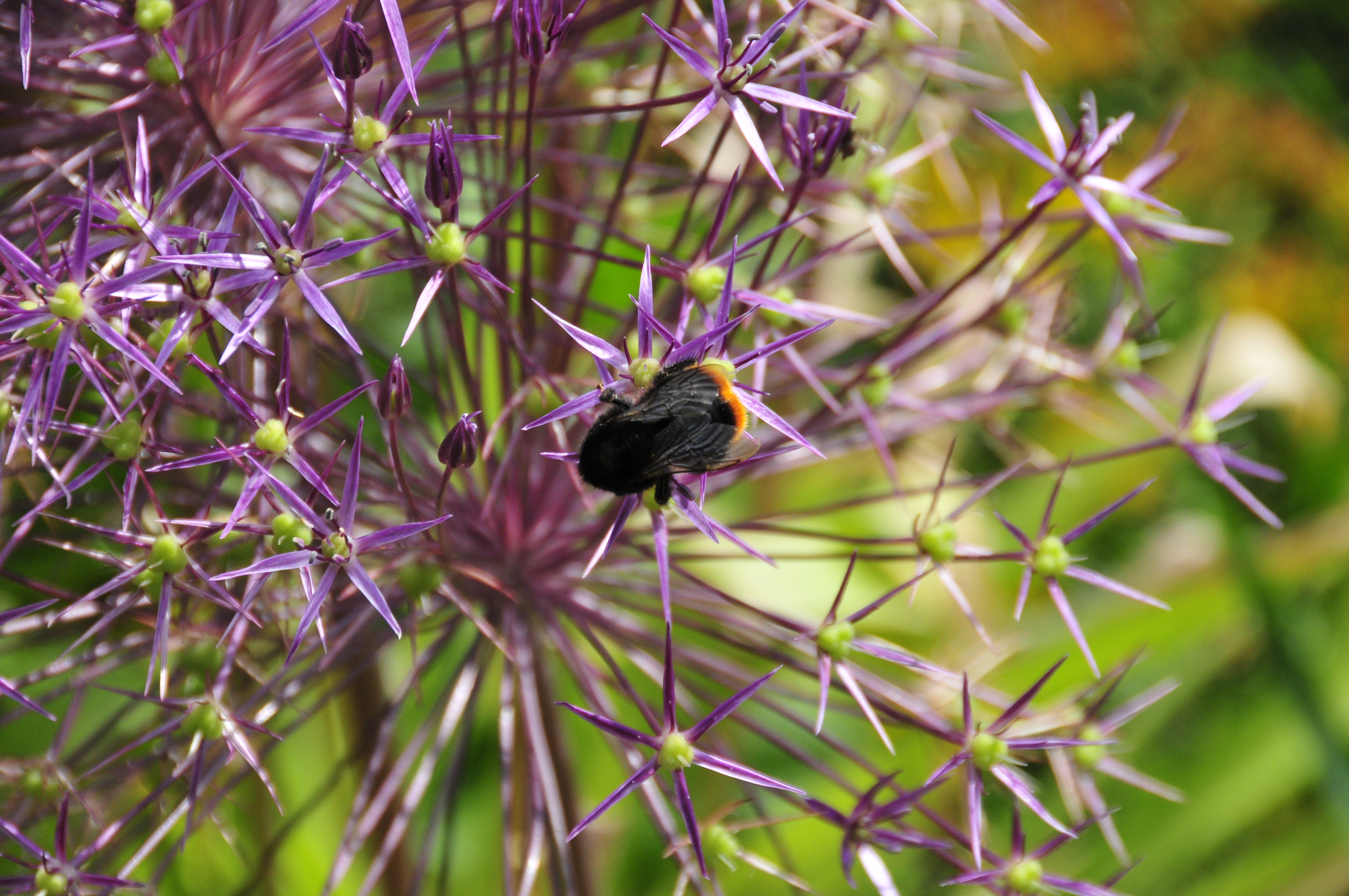 Allium cristophii